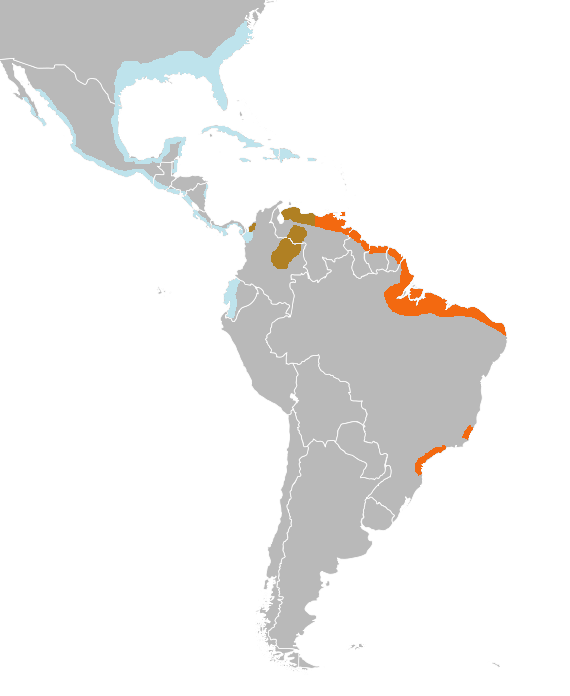 Range of American White Ibis (pale blue) and Scarlet Ibis (orange) in the Americas. Region where both occur is in tan. Adapted and cropped from File:BlankMap-Americas.svg, and information from Ramo, C.; Busto, B. (1987). "Hybridization between the Scarlet Ibis (Eudocimus ruber) and the White Ibis (Eudocimus albus) in Venezuela". Colonial Waterbirds 10 (1): 111–14.